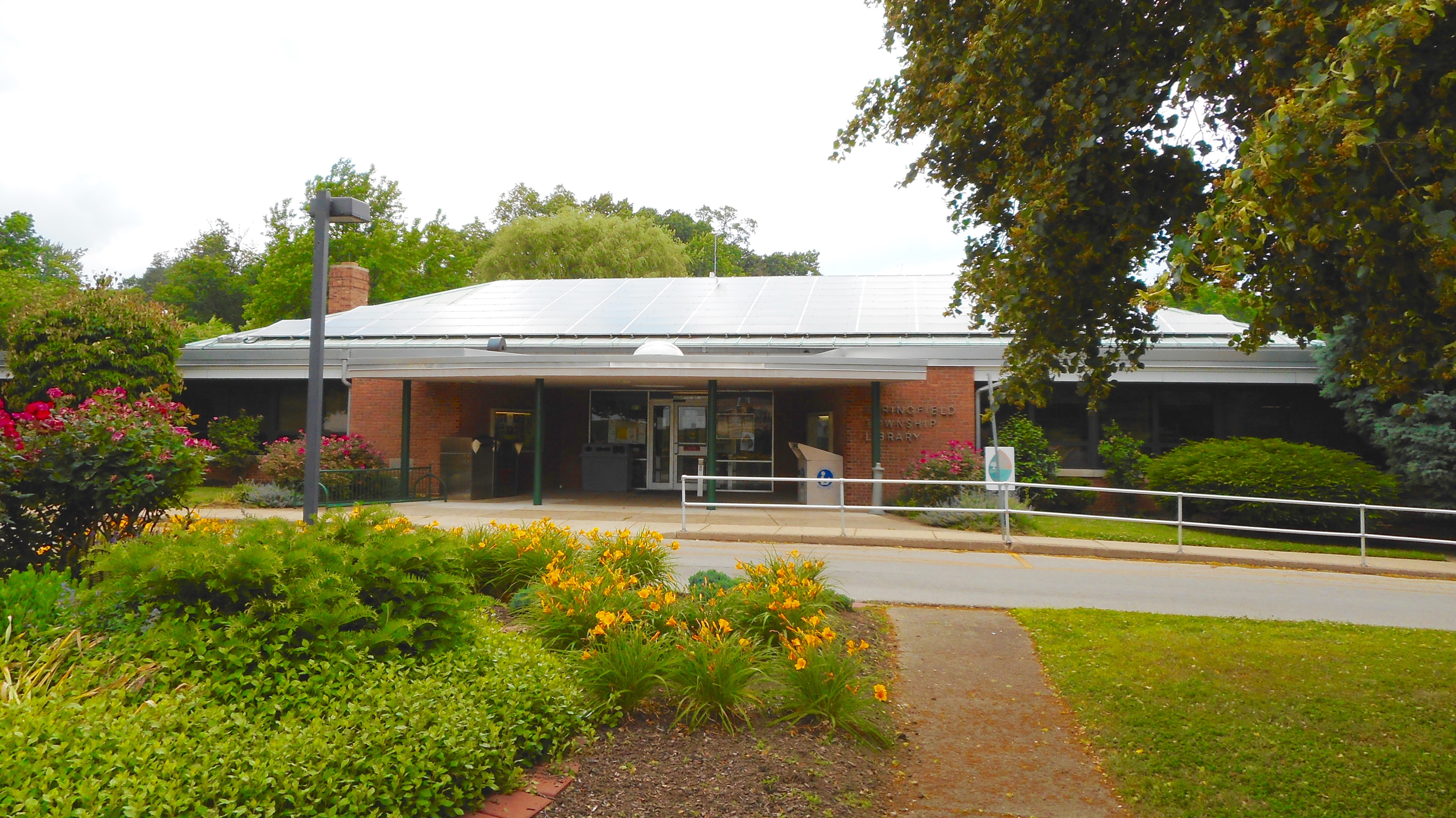 Springfield Township Public Library in Delaware County, Pennsylvania